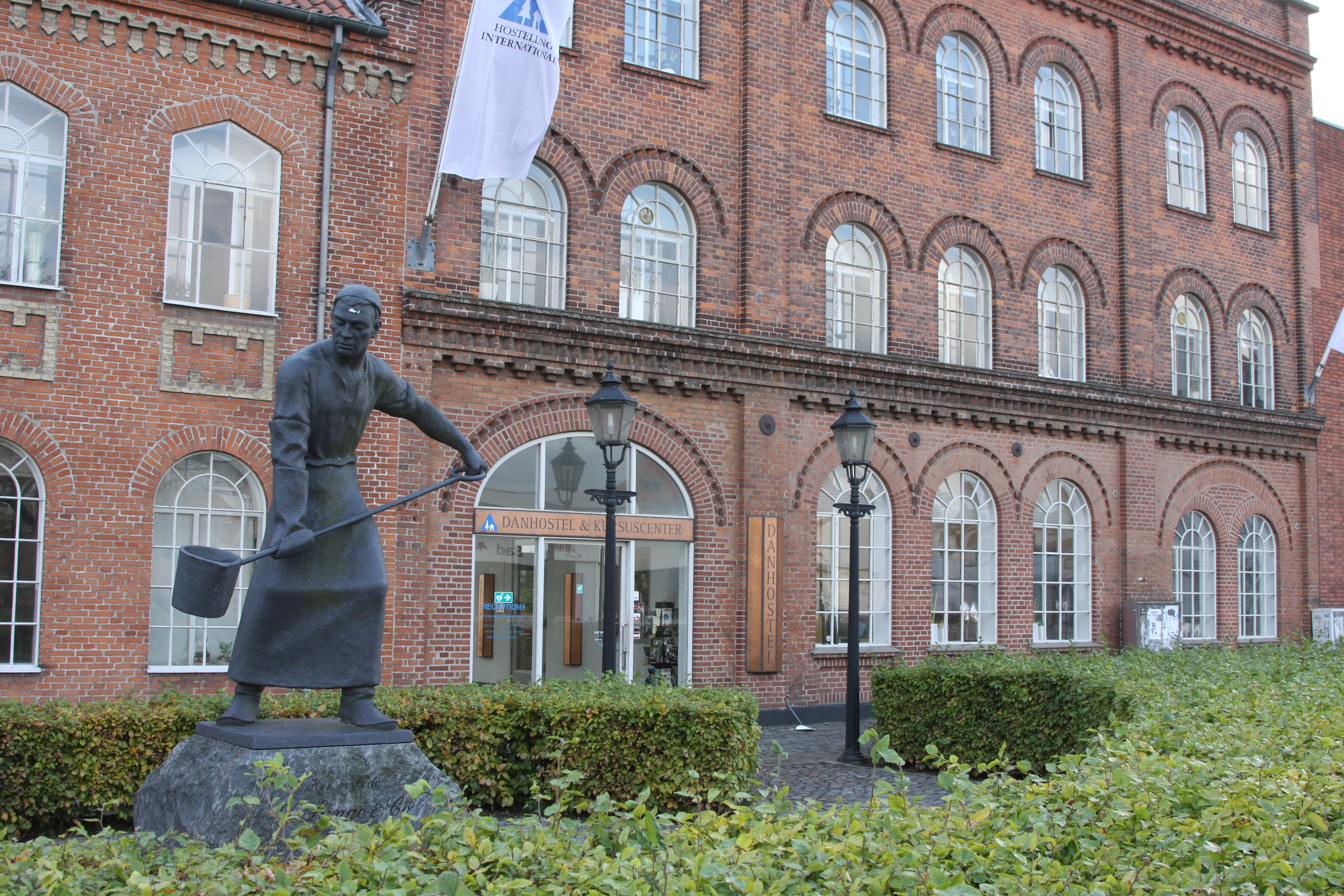 One of the buildings which until 1984 housed the iron foundry A/S L. Lange & Co. (Svendborg Jernstøberi) in Svendborg, Denmark.